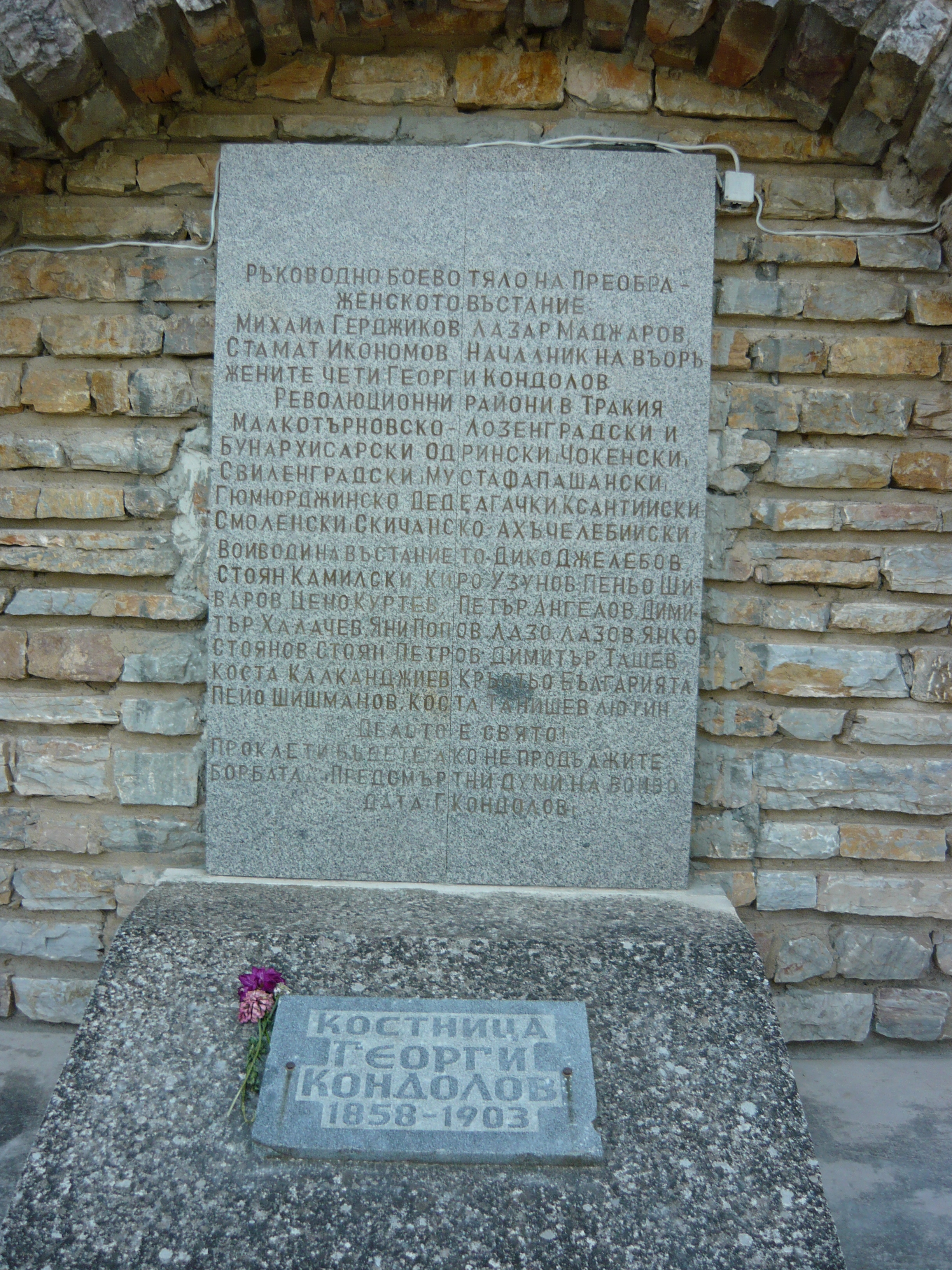 Memorial of Georgi Kondolov